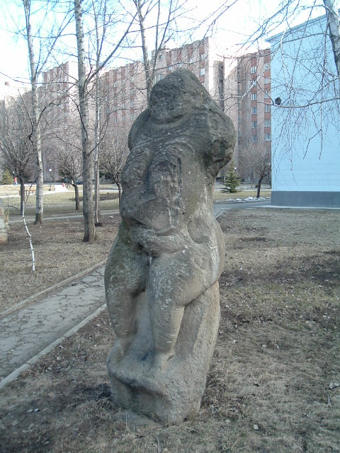 Desription RU: Парк-музей каменных скульптур. Каменная баба Location: Lugansk, Ukraine Date: 02/04/2005 Author of photo: Alexander Chupryna License: GFDL